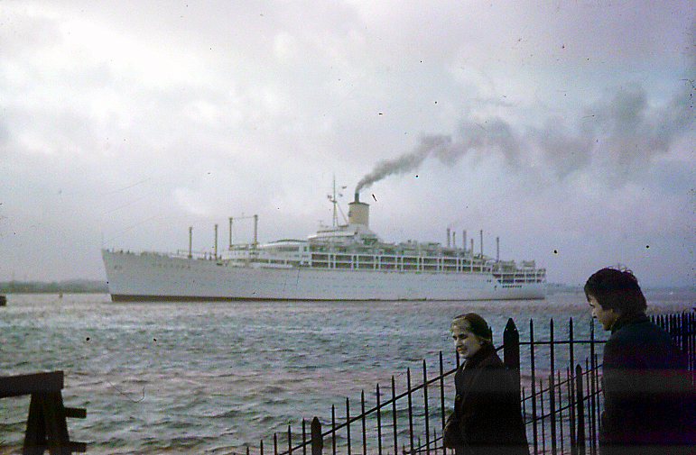 A photo of the ocean liner Orcades.